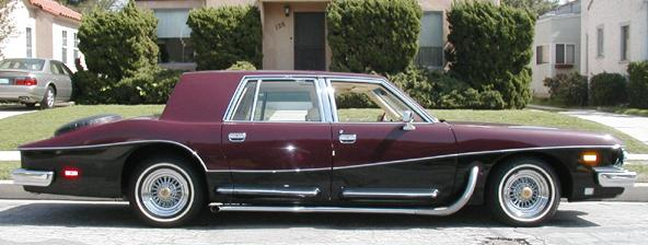 Rare Victoria